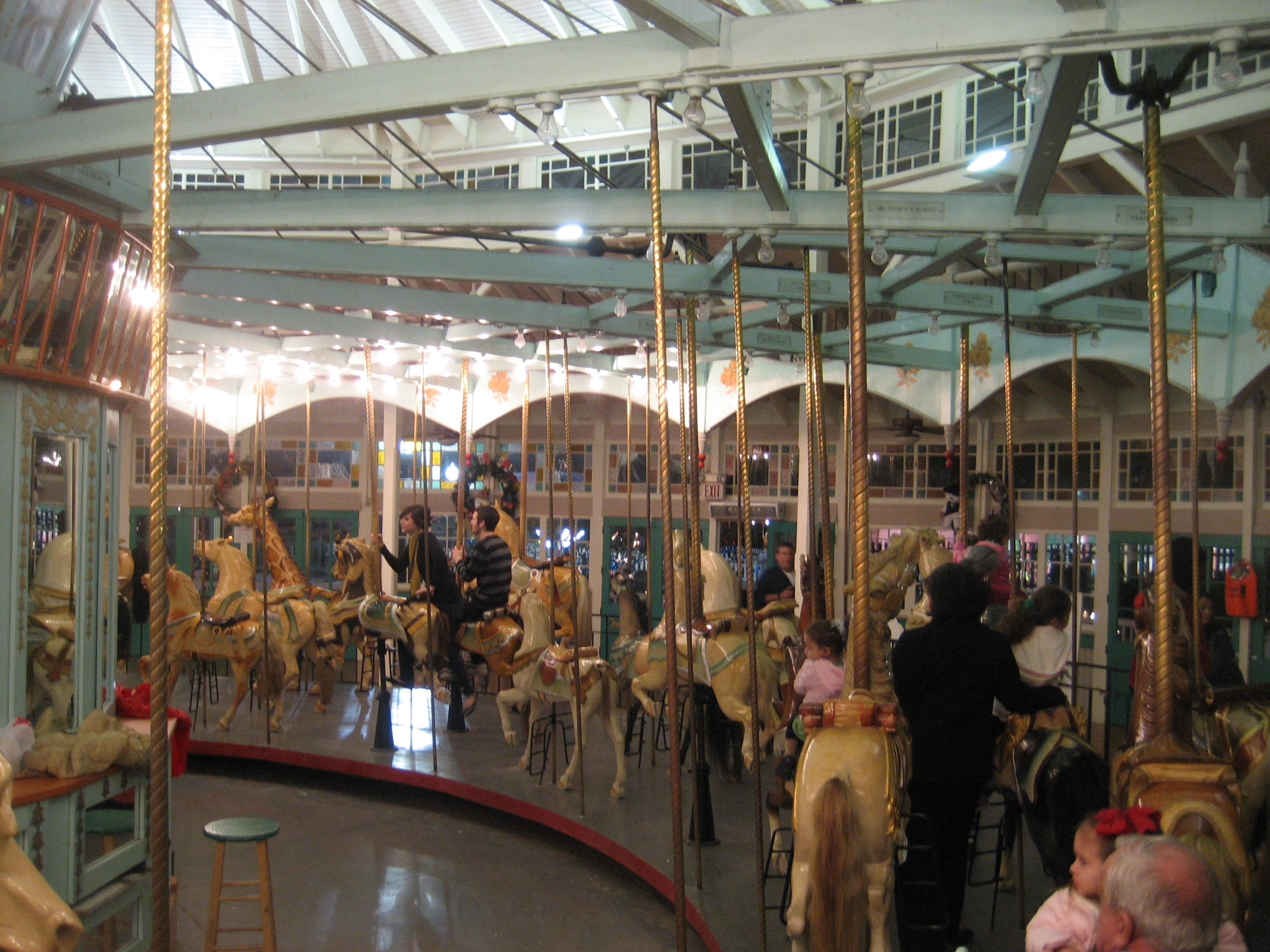 New Orleans: City Park Carousel aka "the Flying Horses"